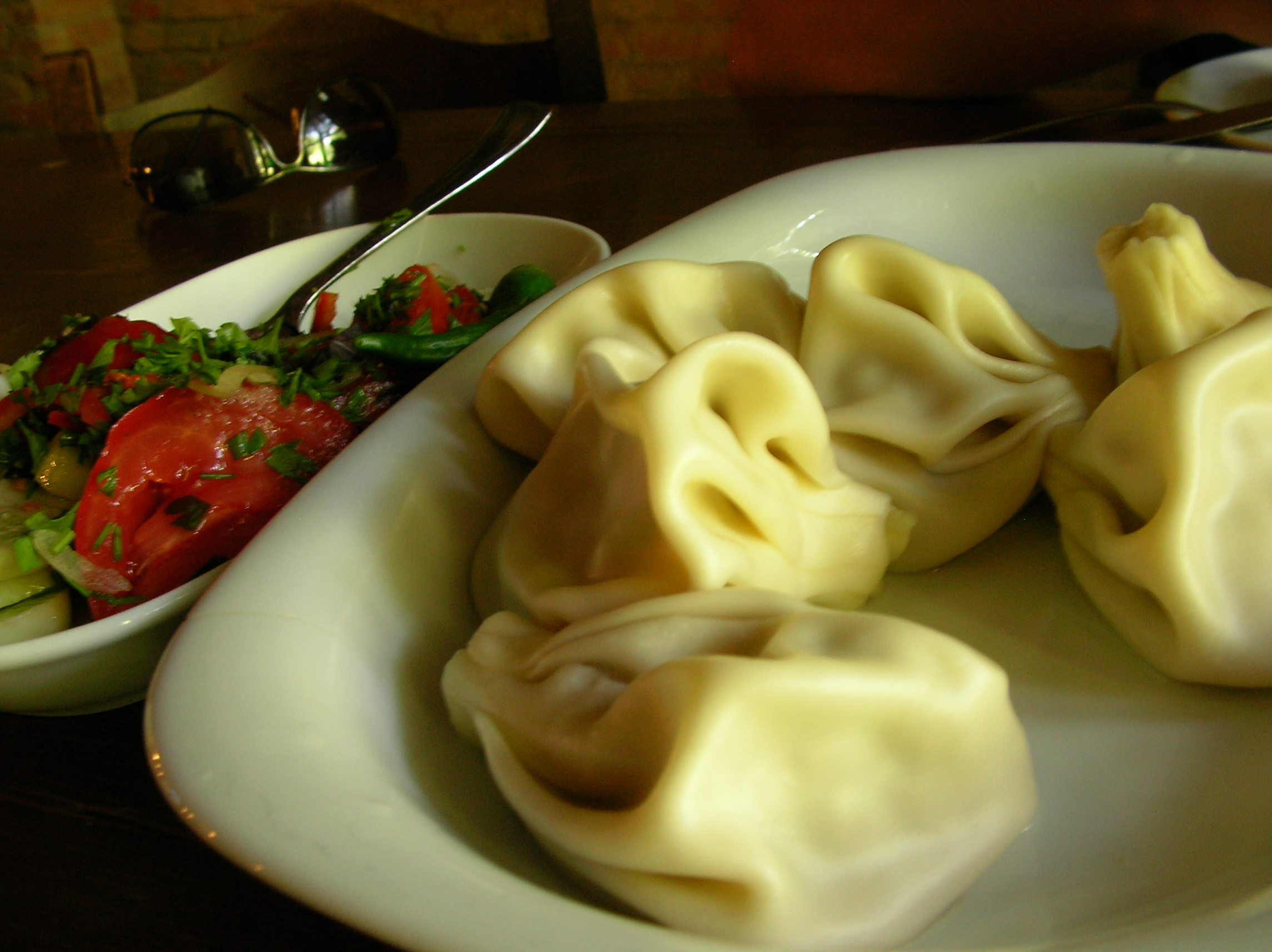 khinkali, Georgian dumplings stuffed with meat.